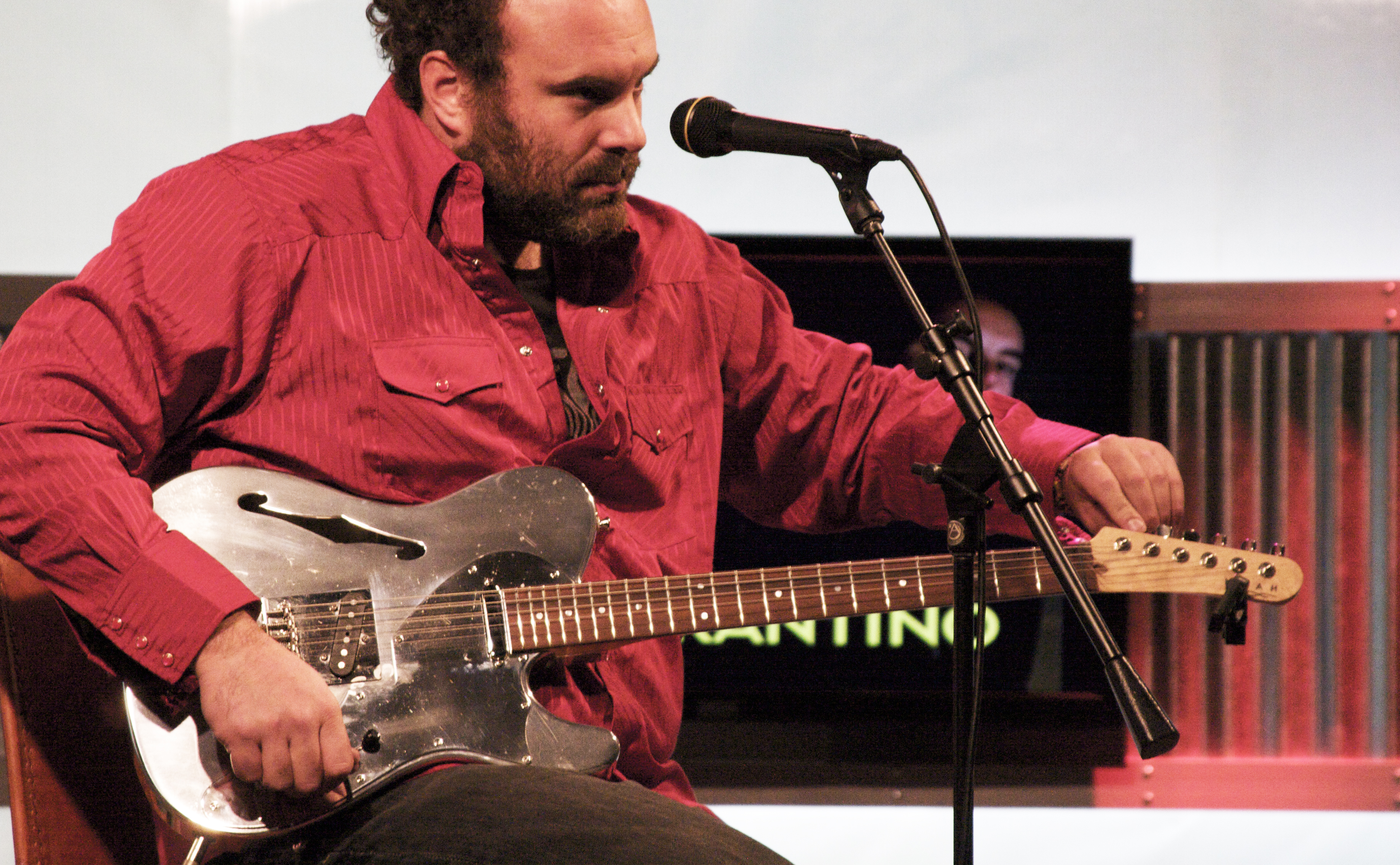 Ray Tarantino - Park City UT - 2010